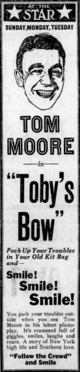 Newspaper advertisement for the American silent drama film Toby's Bow (1919) with Tom Moore, on page 10 of the March 20, 1920 Duluth Herald.